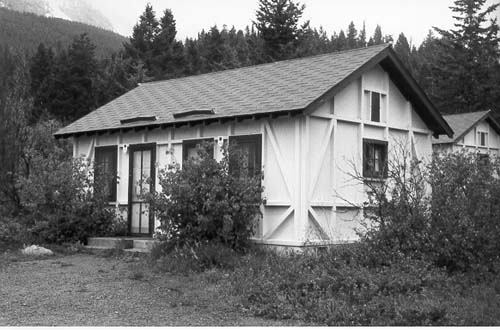 Rising Sun Auto Camp Duplex Cabin 11A/11B, Glacier National Park, Montana, USA